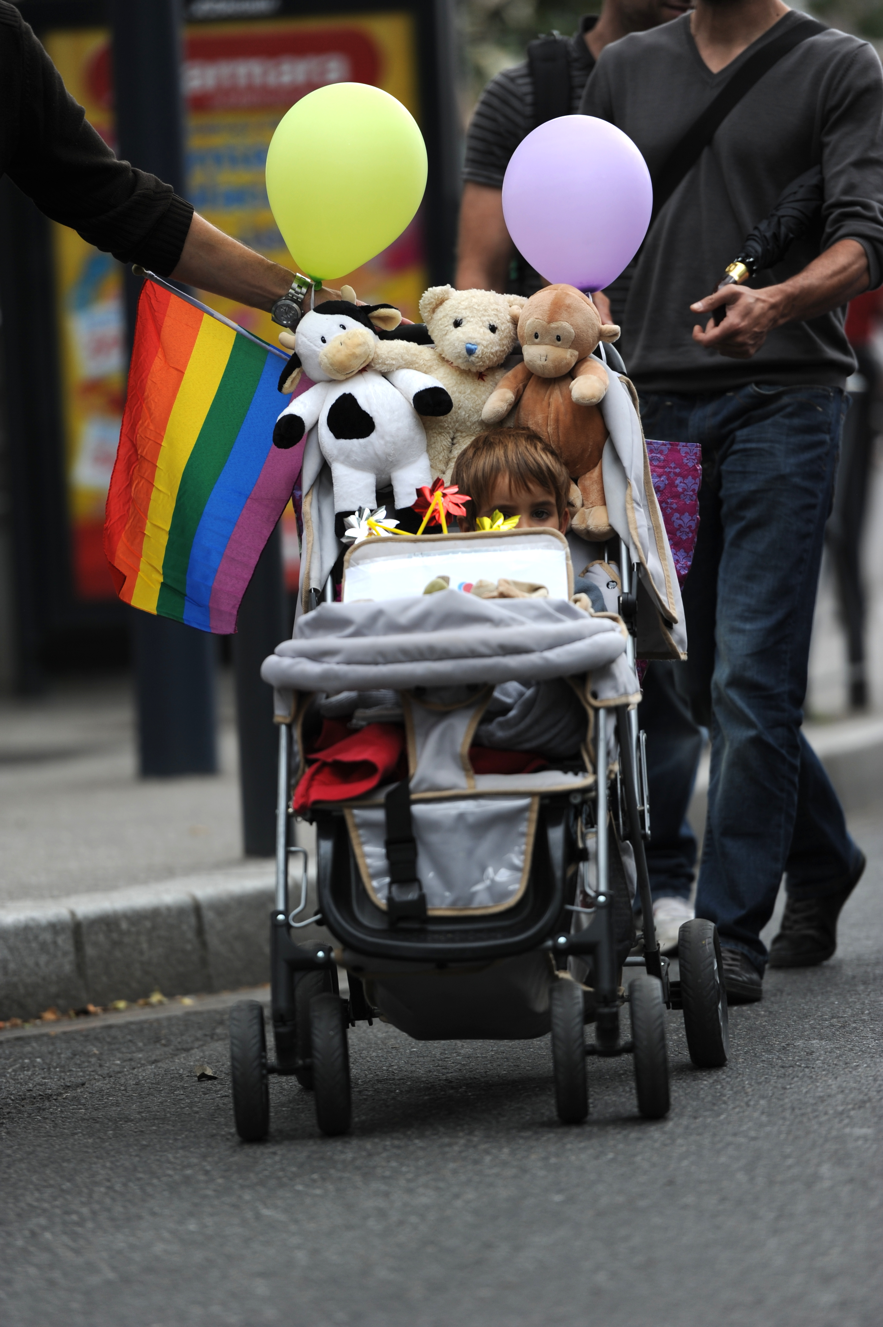 Toulouse Gay Pride 2011 in Toulouse, France, on June 18th, 2011.